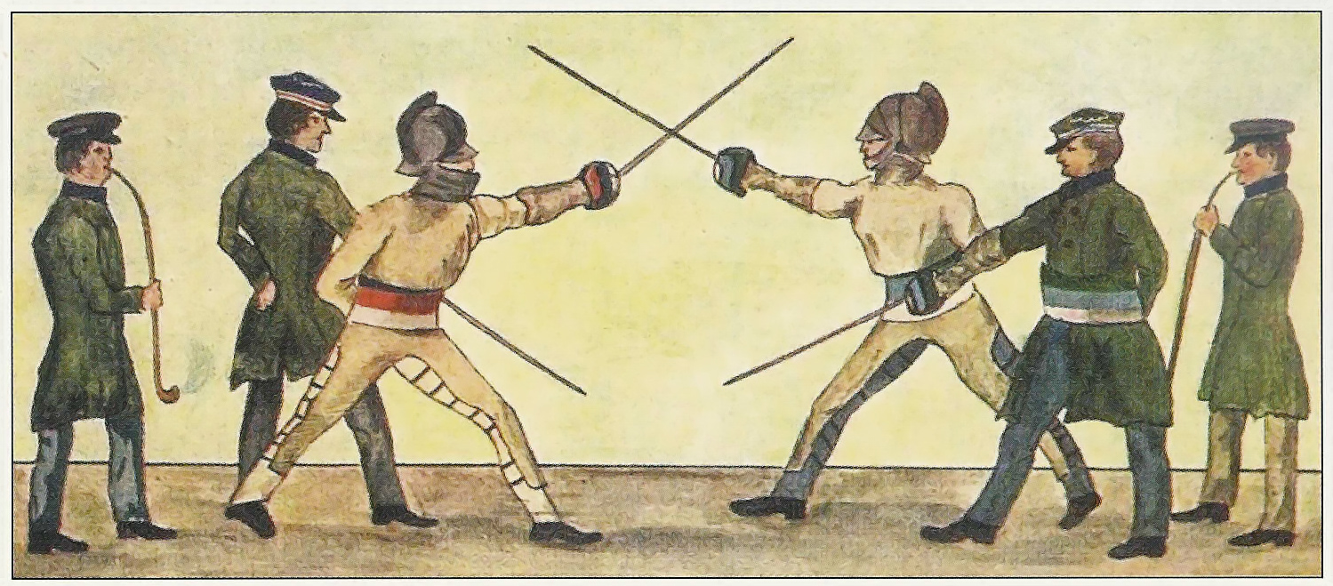 academic fencing of Dorpat (Tartu) fraternity students in the 1820s, Corps Curonia Dorpat on the right against an unknown fraternity on the left, both using a leather helmet which was typical for academic fencing in the Baltic universities